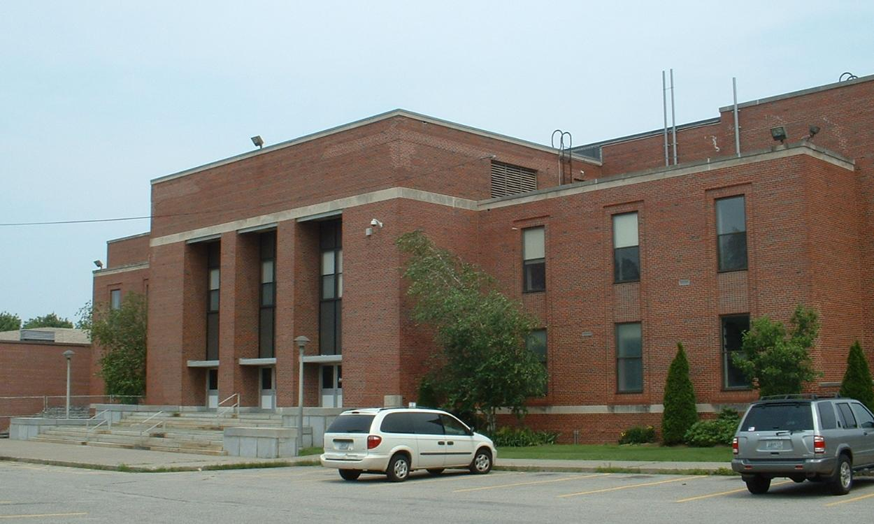 Alumni Hall's front entrance, Providence College, Providence, RI.